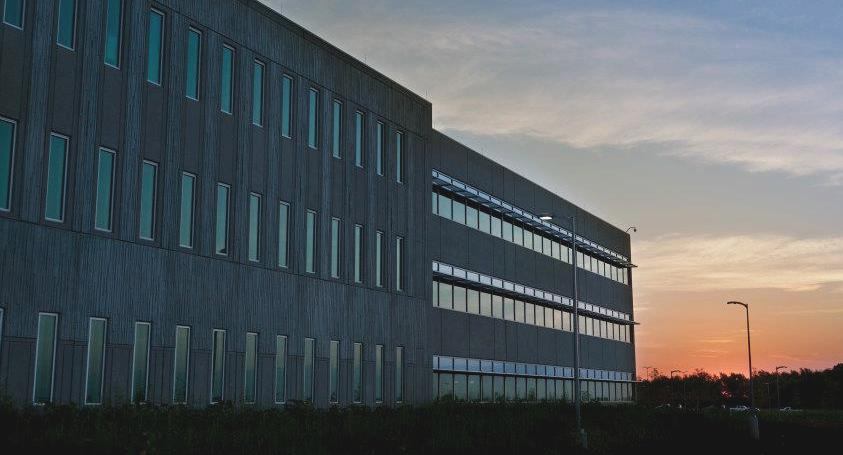 The new smaller, more efficient Kansas City Plant is at 14520 Botts Road Kansas City, MO 64147. The US Government claimed this facility would reduce annual operating costs by $100 million over its previous operations at the Bannister Federal Complex. For more information or additional images, please contact 202-586-5251.